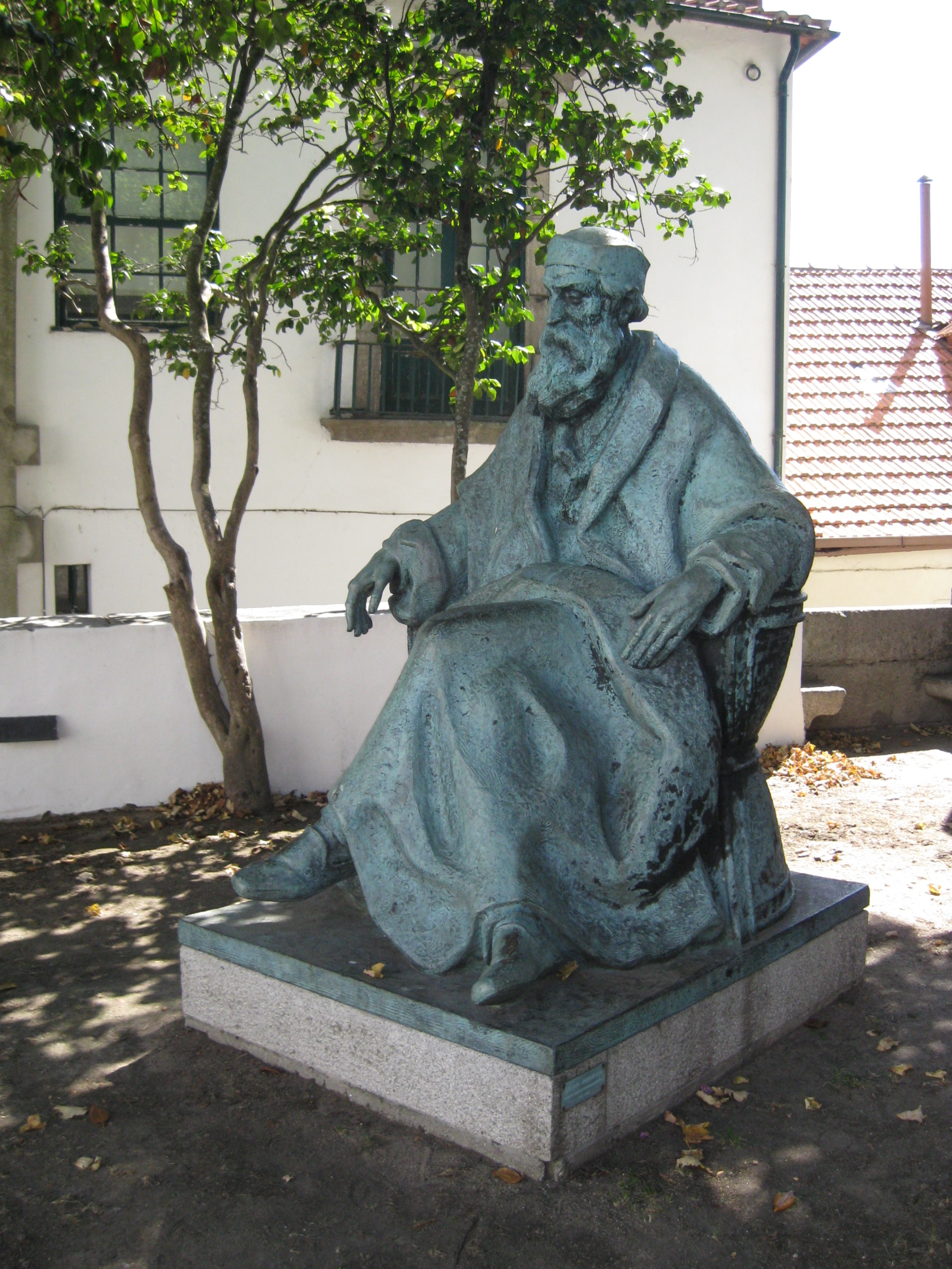 Bronze statue of Guerra Junqueira (1850-1923) by Leopoldo De-Almeida (1970) in the gardens of the Casa-Museu de Guerra Junqueira, Rua de D. Hugo, Porto, Portugal